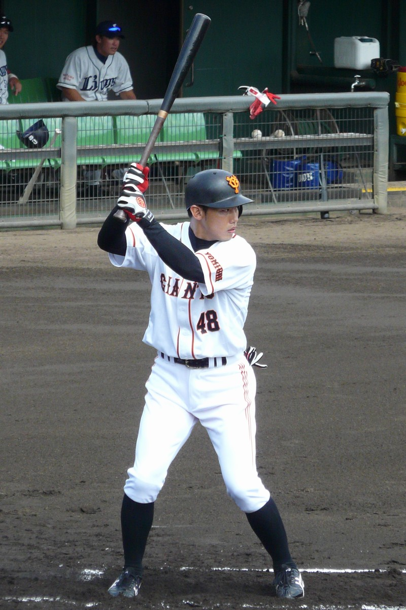 Kenji Yano, outfielder of the Yomiuri Giants, at Yomiuri Giants Stadium